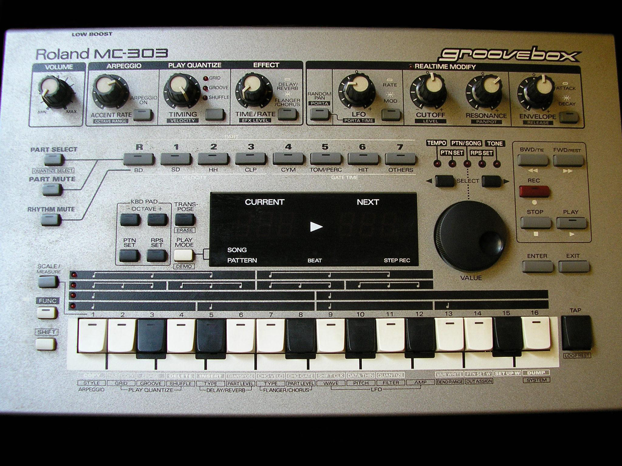 Roland MC-303 groovebox. Picture taken by DJFLEX-mk2 on July 04, 2007. (I own this machine!)